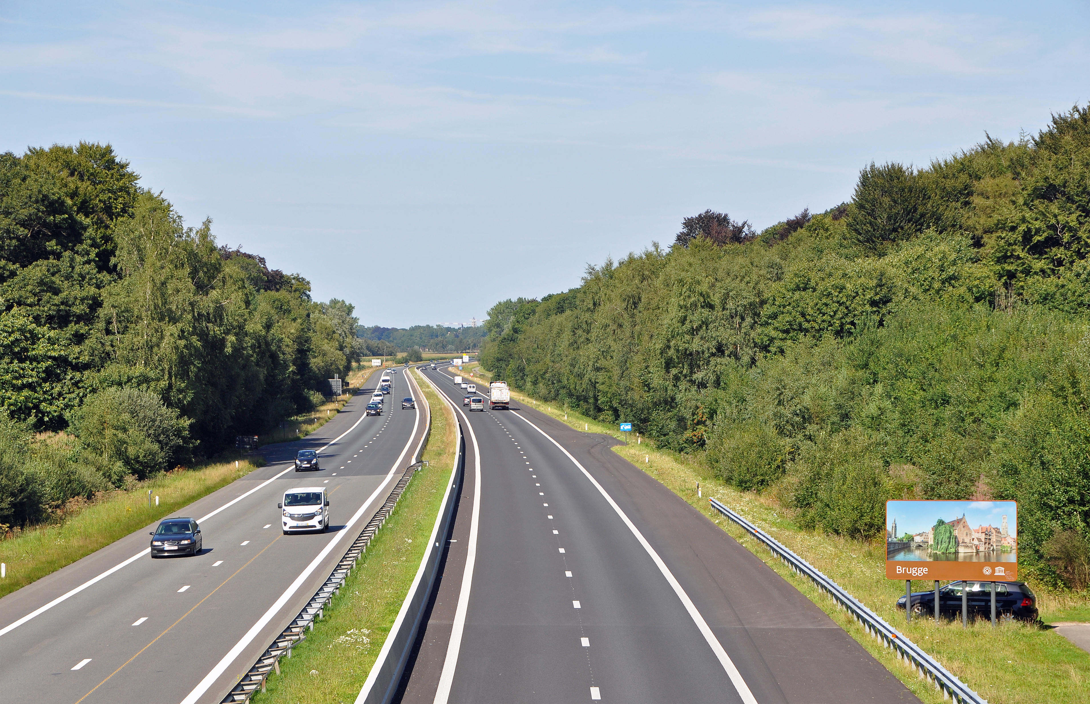 Oostkamp (Belgium): A17 motorway